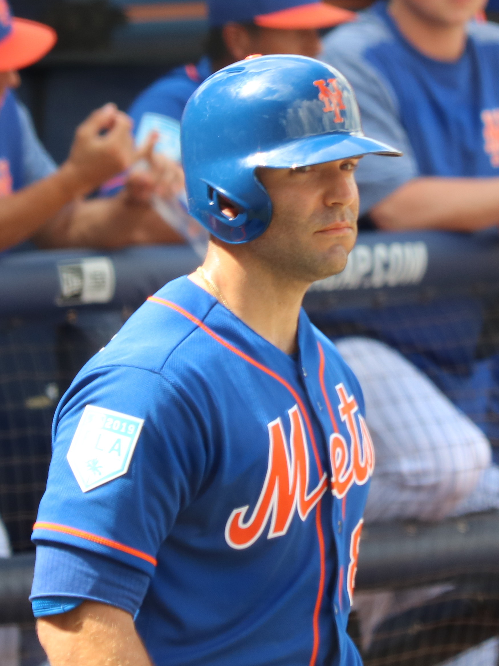 Danny Espinosa walks to the batter's box, March 2, 2019